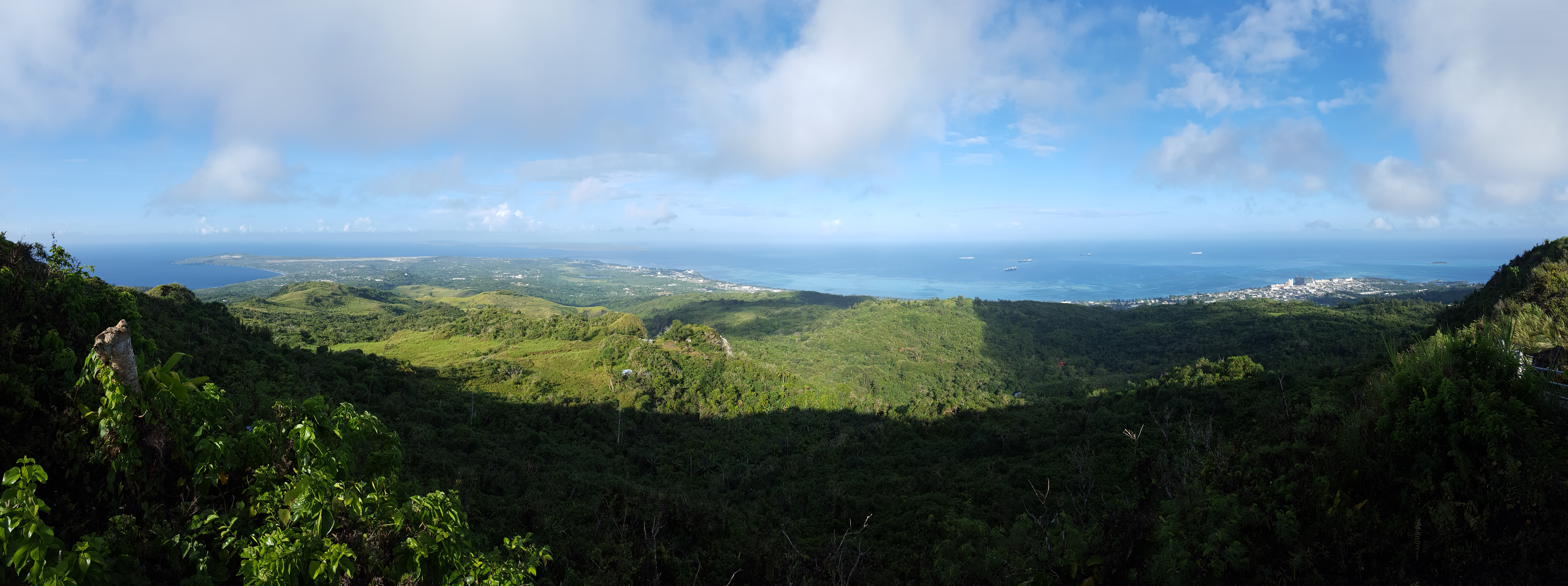 This photo is a panorama taken from the peak of Mount Tapochau on June 6, 2017